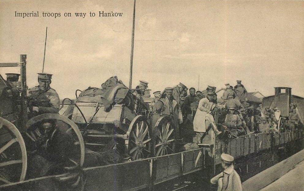 Beiyang Army commanded by Yuan Shikai on their way to Hankou to engage with the revolutionaries in respond to the Wuchang Uprising. Postcard published in 1911.